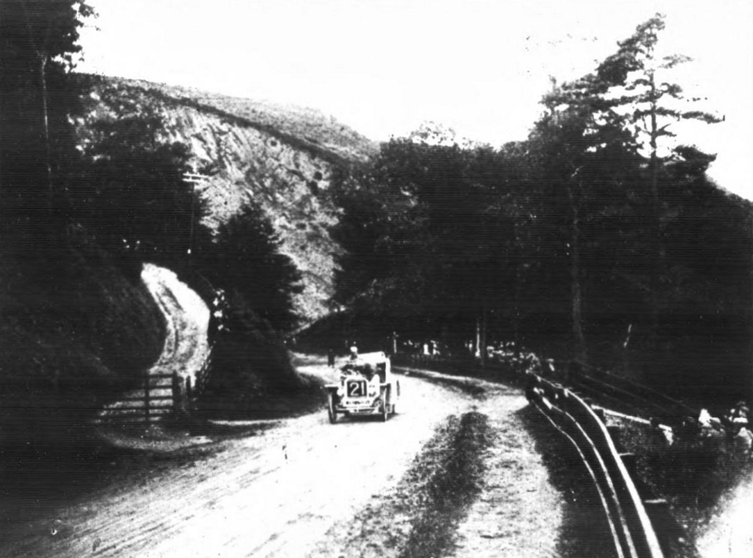 W. H. Cox driving a 20-H.P. Maudslay towards the mountain road.